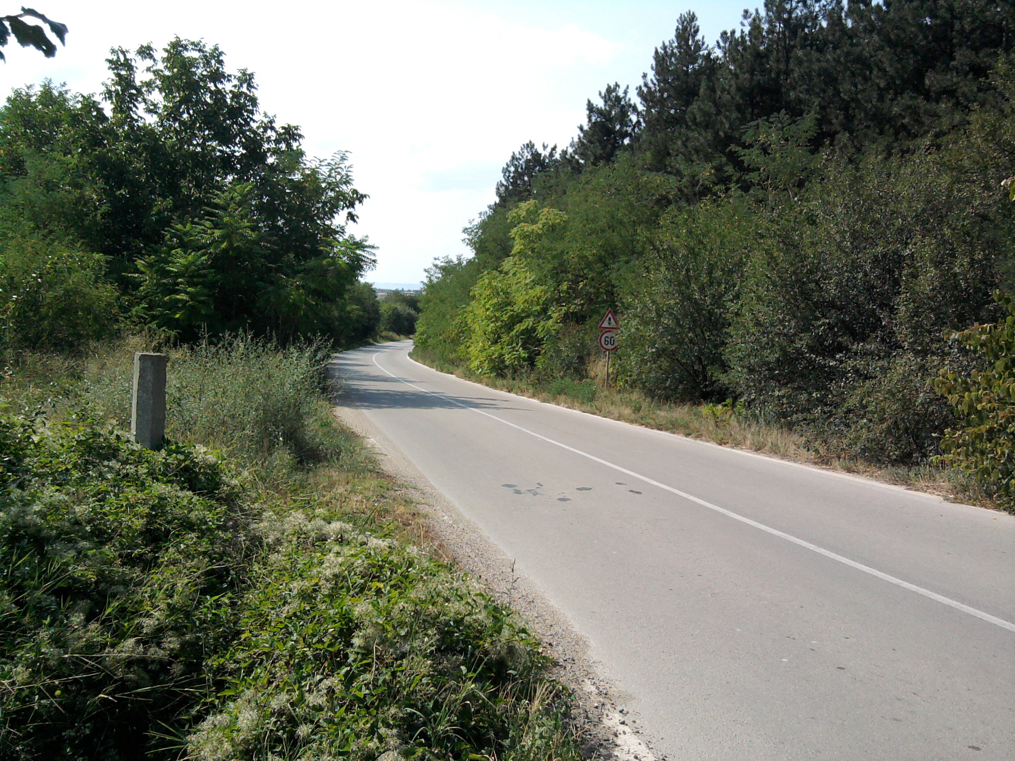 Road III 122 Bulgaria